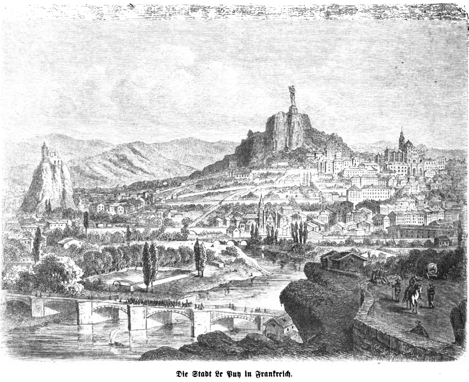 caption: "Die Stadt Le Puy in Frankreich."